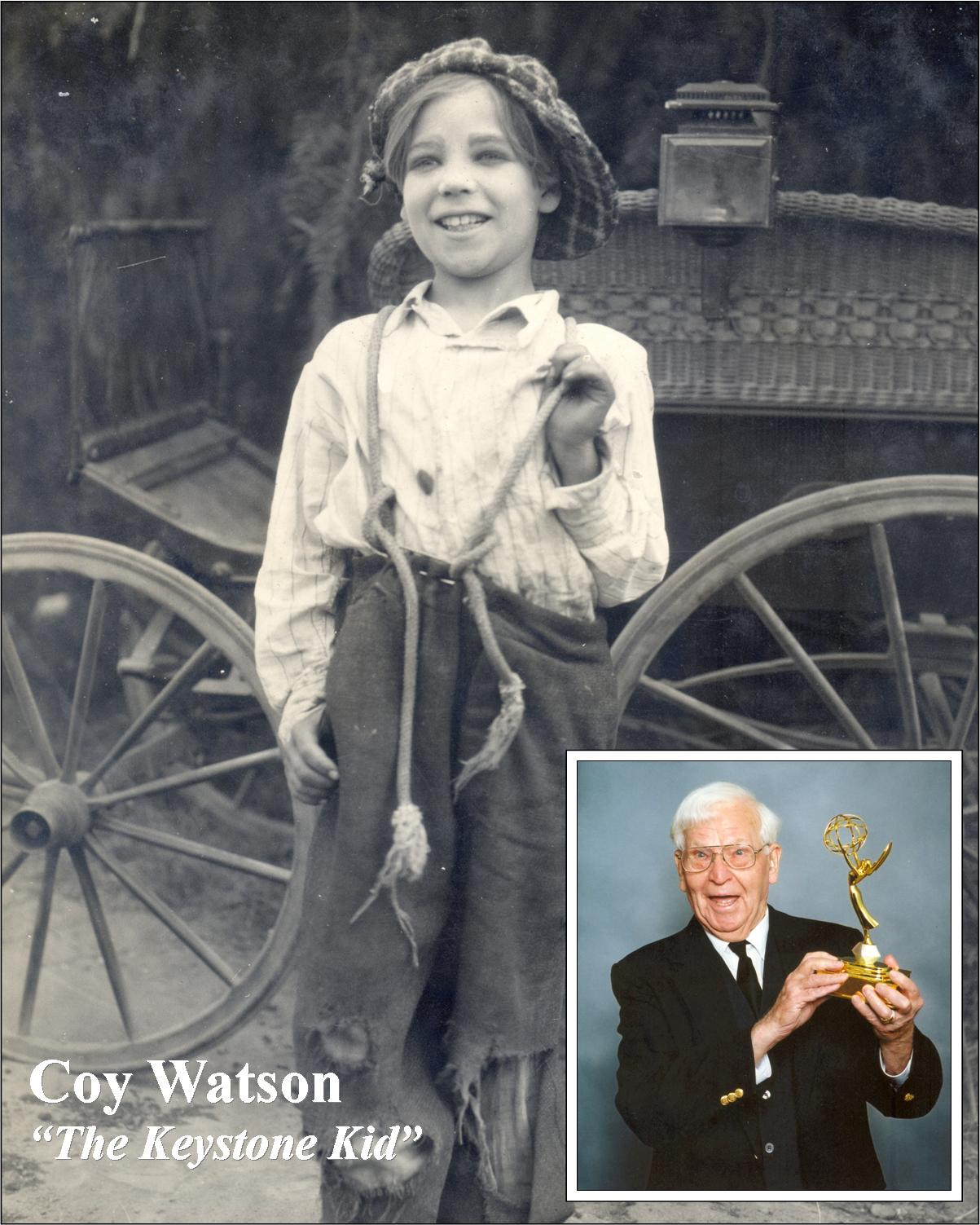 Coy Watson, Jr